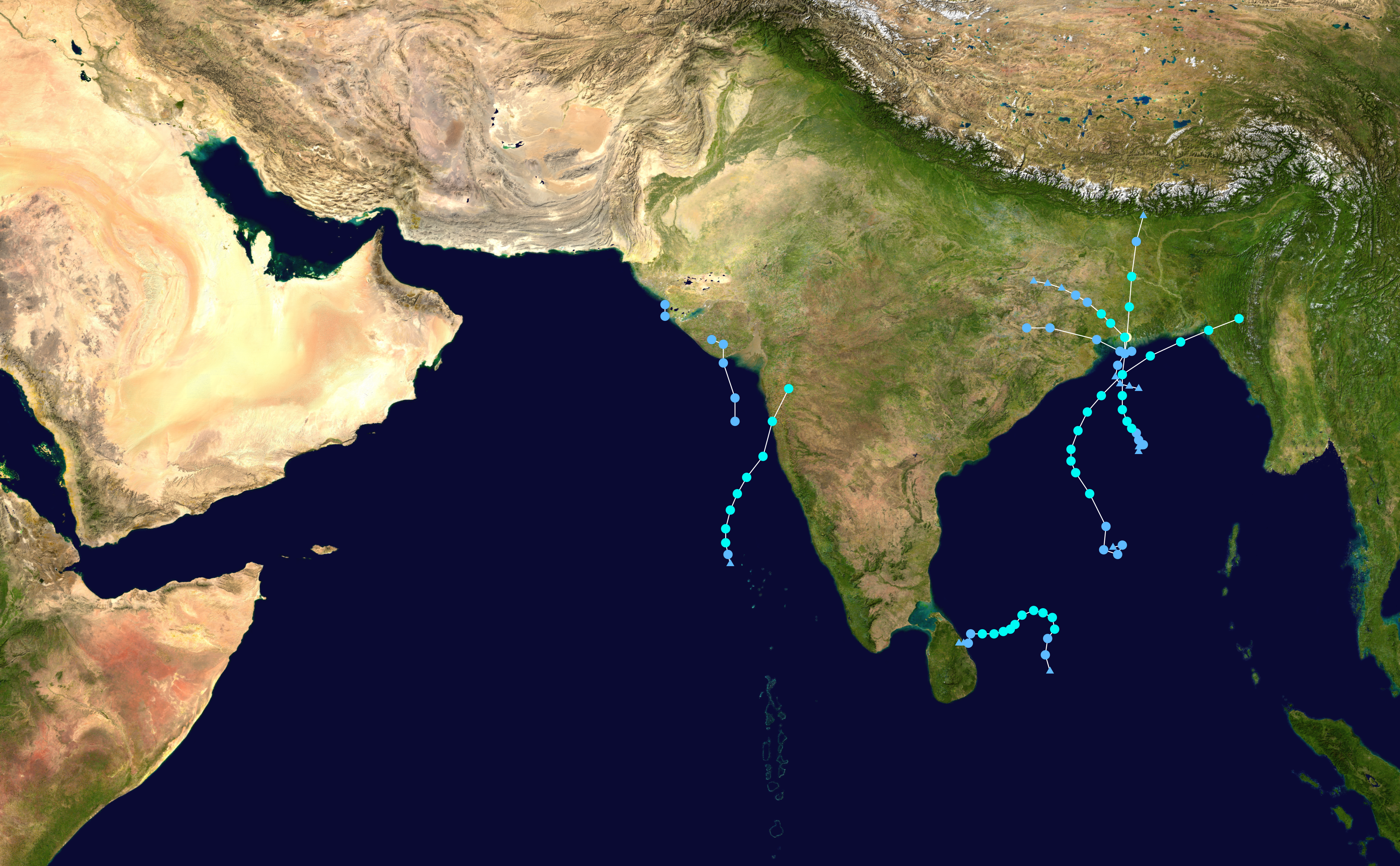 This map shows the tracks of all tropical cyclones in the 2009 North Indian Ocean cyclone season. The points show the location of each storm at 6-hour intervals. The colour represents the storm's maximum sustained wind speeds as classified in the Saffir-Simpson Hurricane Scale (see below), and the shape of the data points represent the type of the storm. Saffir–Simpson scale Tropical depression≤38 mph≤62 km/h Category 3111–129 mph178–208 km/h Tropical storm39–73 mph63–118 km/h Category 4130–156 mph209–251 km/h Category 174–95 mph119–153 km/h Category 5≥157 mph≥252 km/h Category 296–110 mph154–177 km/h Unknown Storm type Tropical cyclone Subtropical cyclone Extratropical cyclone / Remnant low / Tropical disturbance / Monsoon depression